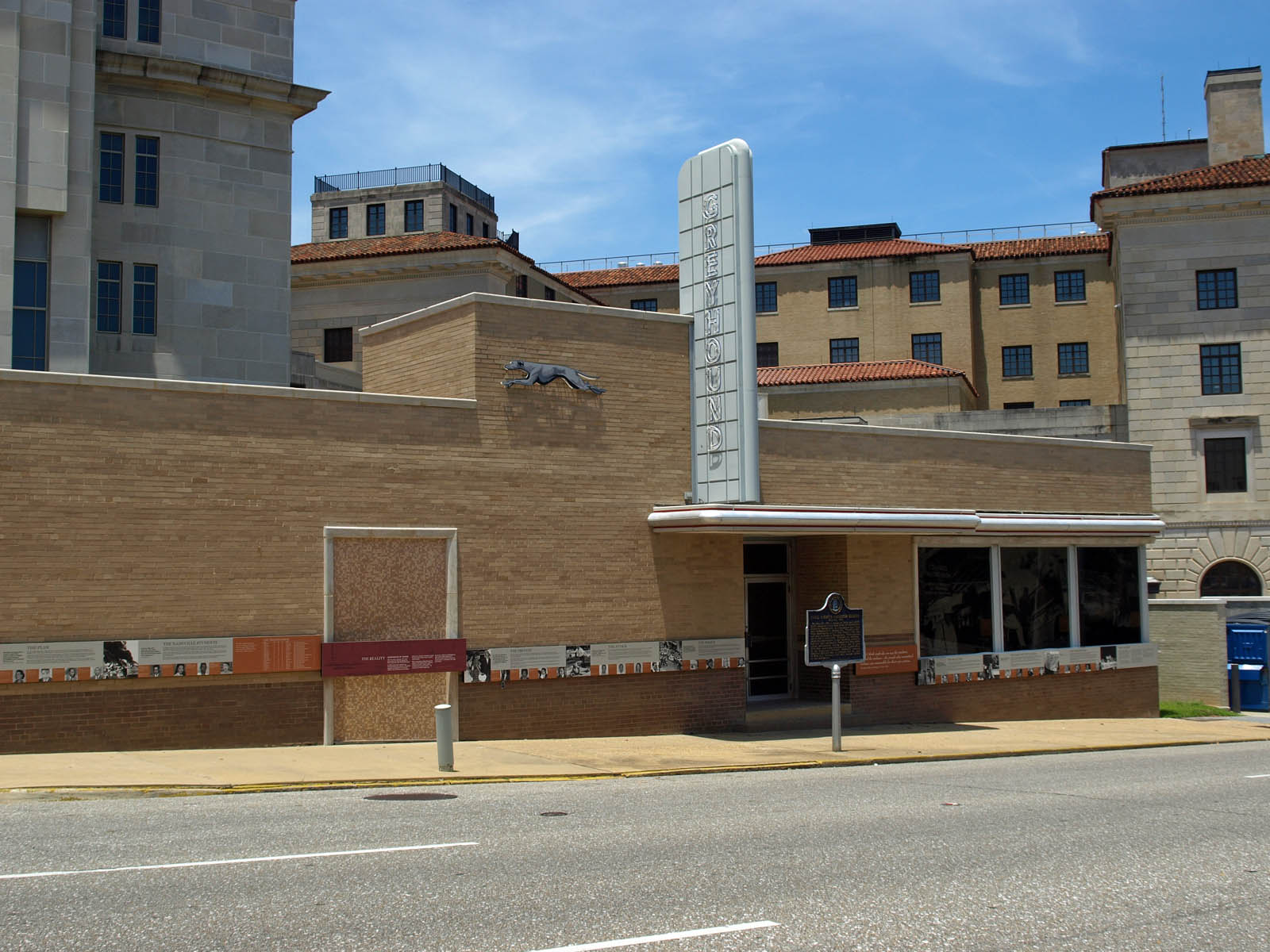 The old Greyhound bus station in Montgomery, Alabama, site of a clash between the Freedom Riders and protesters in 1961.